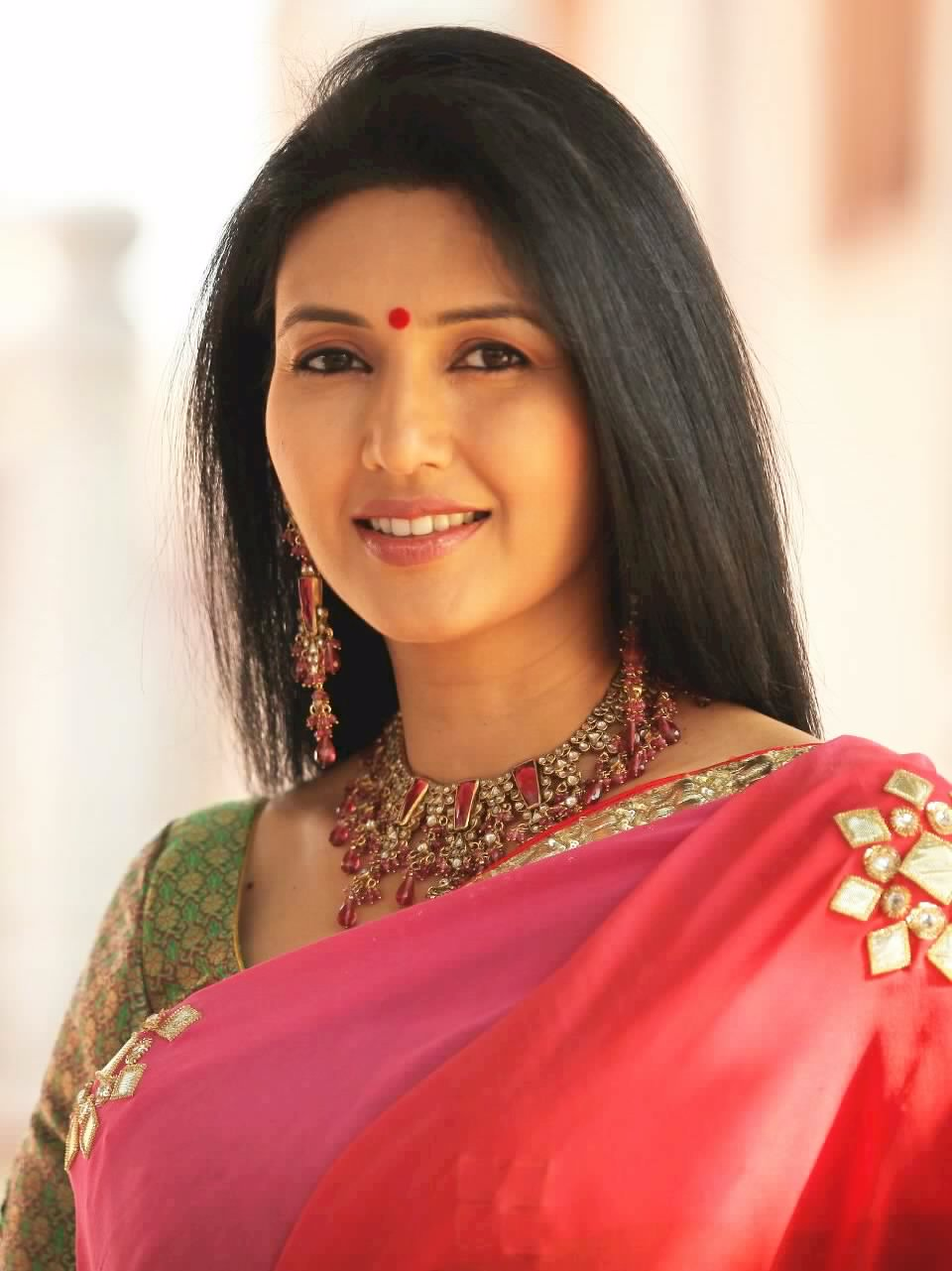 Deepti bhatnagar